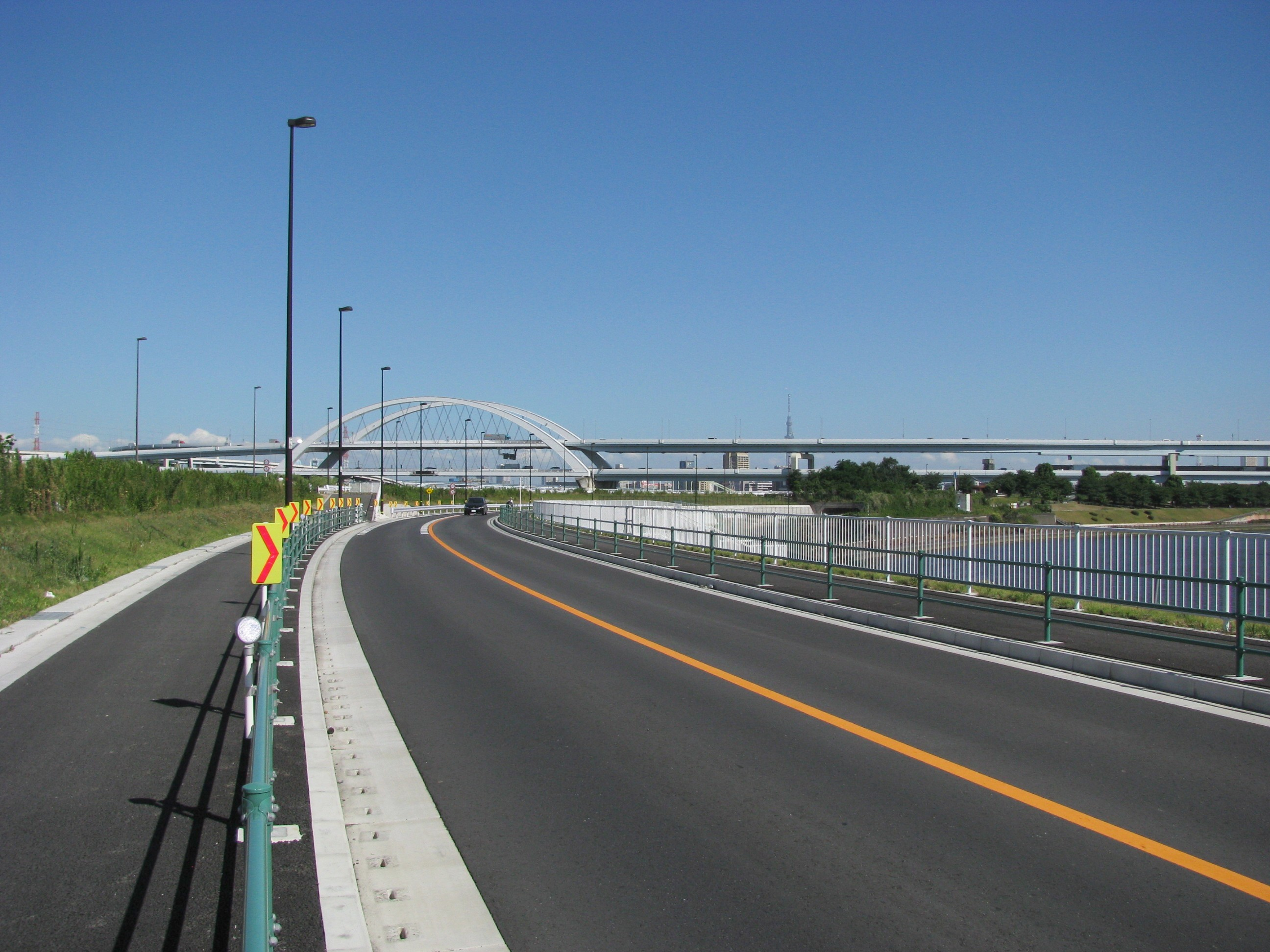 The Tokyo Prefectural Route 449. This location is Toshima in Adachi, Tokyo, Japan.